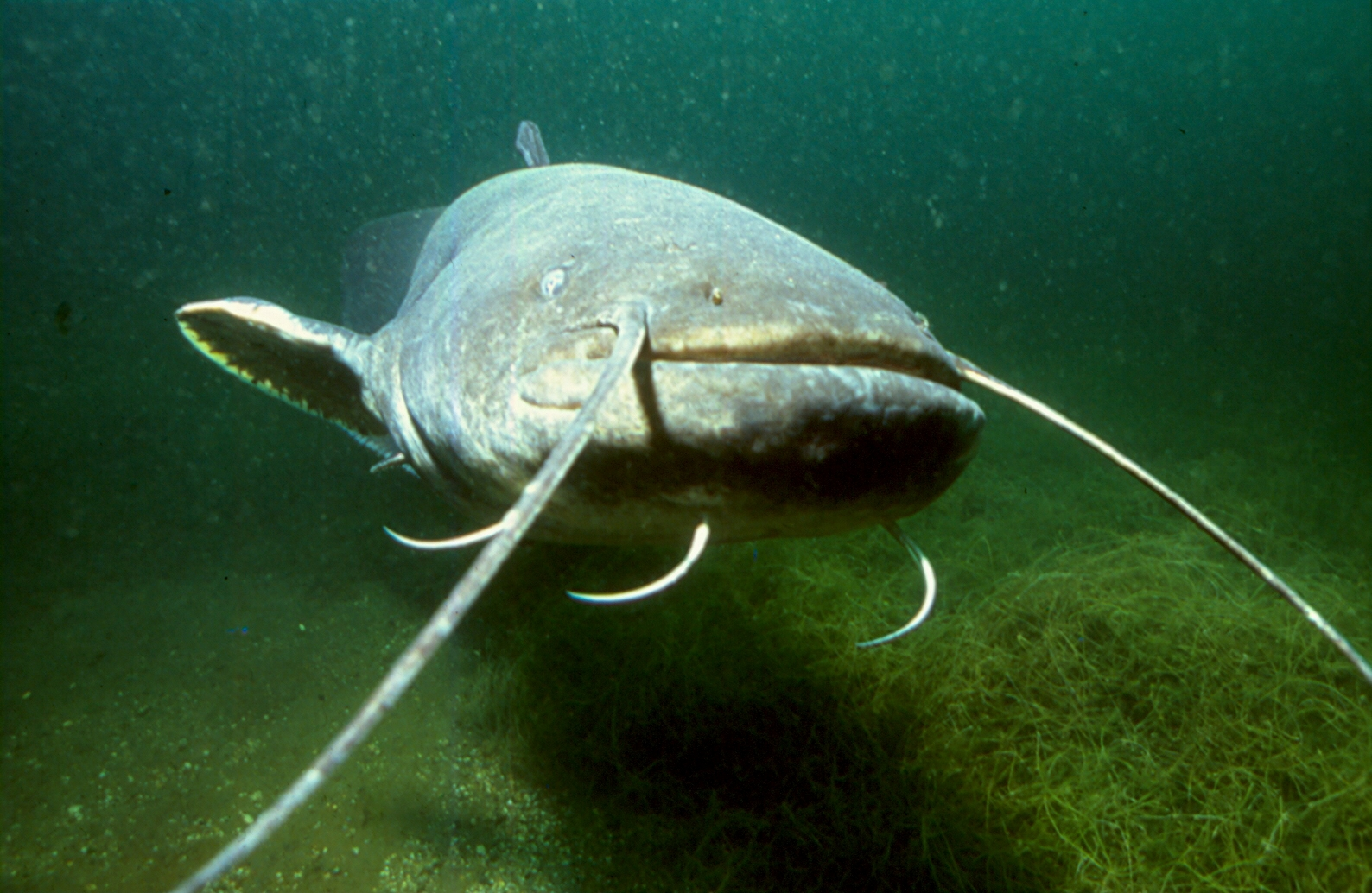 wels catfish in a former surface mine near Leipzig